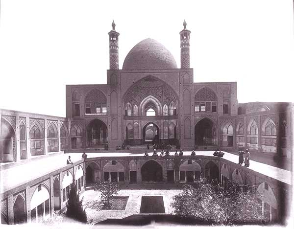 Aqa Bozorg Mosque, Kashan, Iran